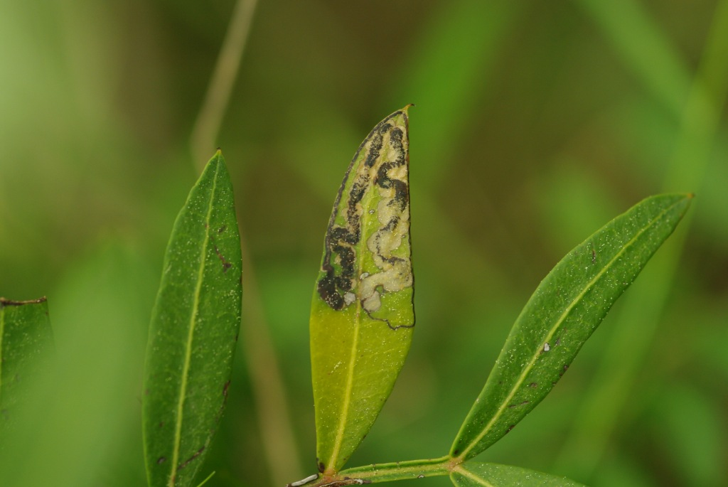 Acalyptris minimella, mine in leaf of Pistacia lentiscus